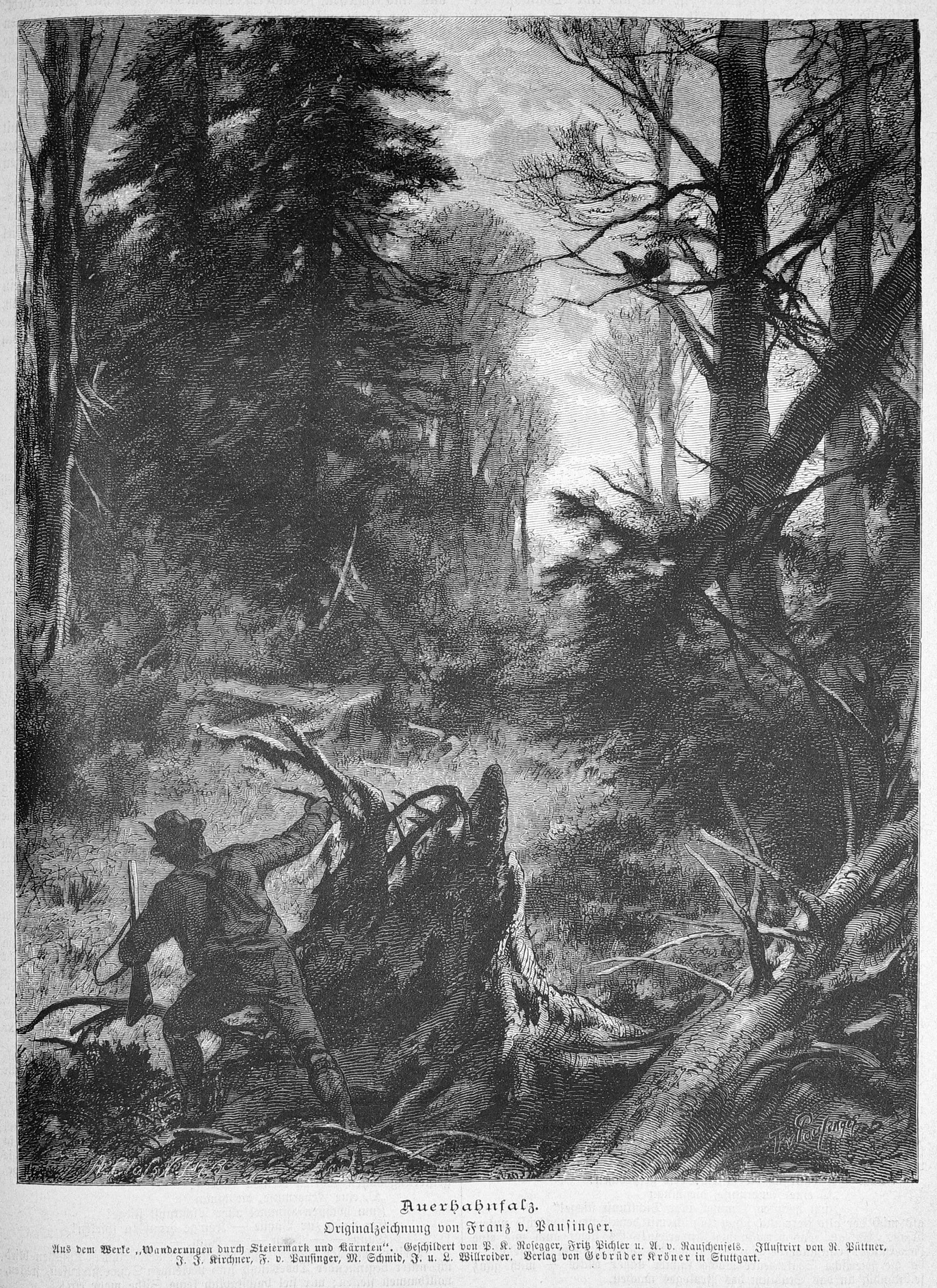 caption: "Auerhahnfalz. Originalzeichnung von Franz v. Pausinger. Aus dem Werke „Wanderungen durch Steiermark und Kärnten“. Geschildert von P. K. Rosegger, Fritz Pichler u. A. v. Rauschenfels. Illustrirt von R. Püttner, J. J. Kirchner, F. v. Pausinger, M. Schmid, J. u. L. Willroider. Verlag von Gebrüder Kröner in Stuttgart."